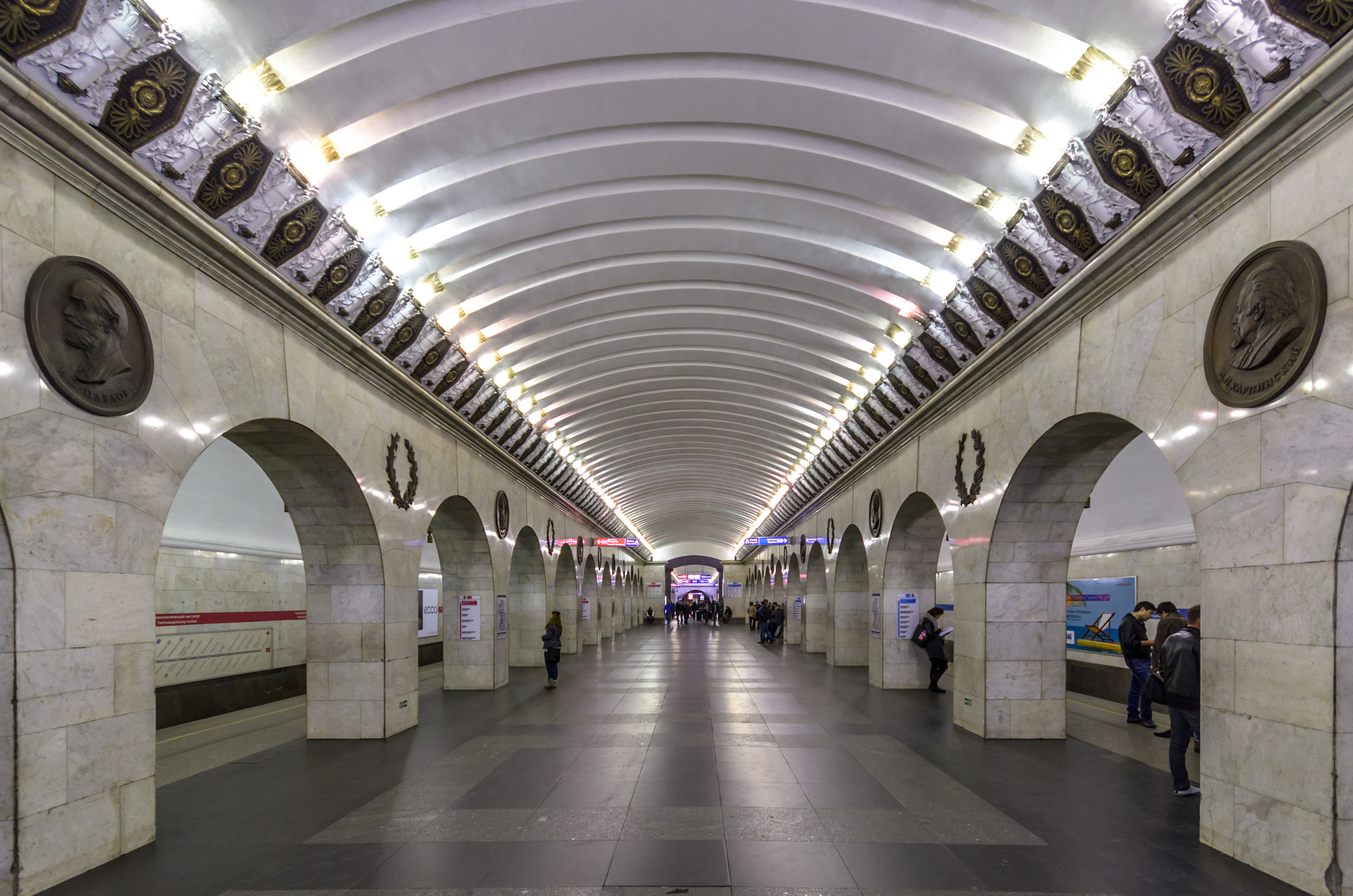 Tekhnologichesky Institut station of Saint Petersburg Subway